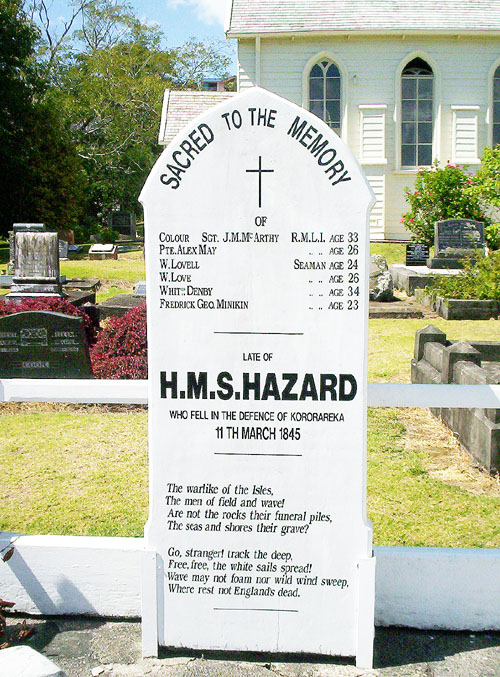 Pic taken by a friend of Moriori specifically for use in Wikipedia, and is released under GFDL